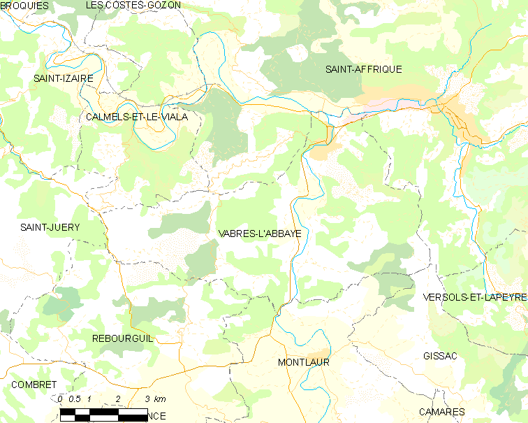 Map commune FR insee code 12286.png - Vabres-l'Abbaye